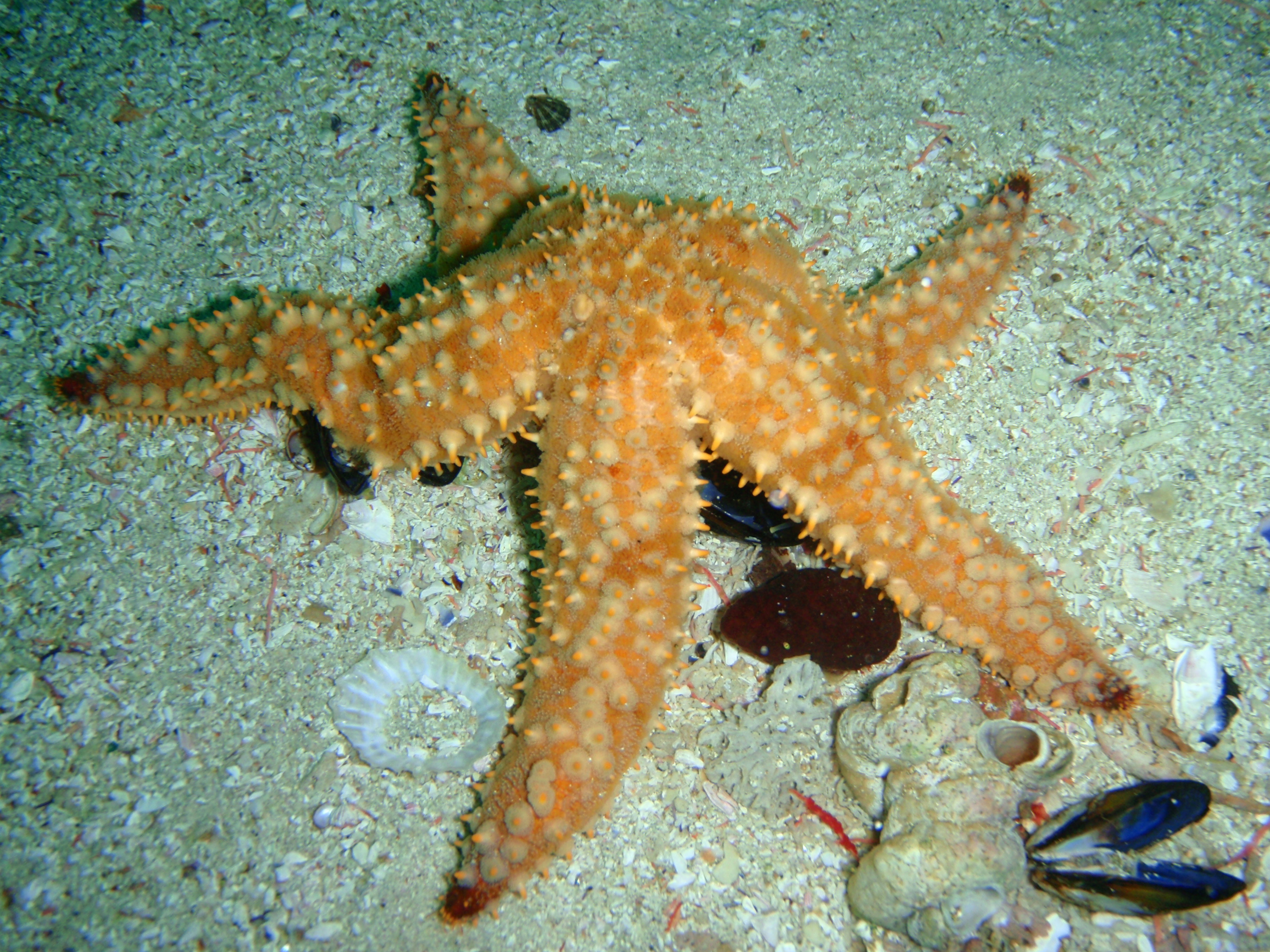 Spiny starfish at Partridge Point, in the Castle Rocks Marine Reserve